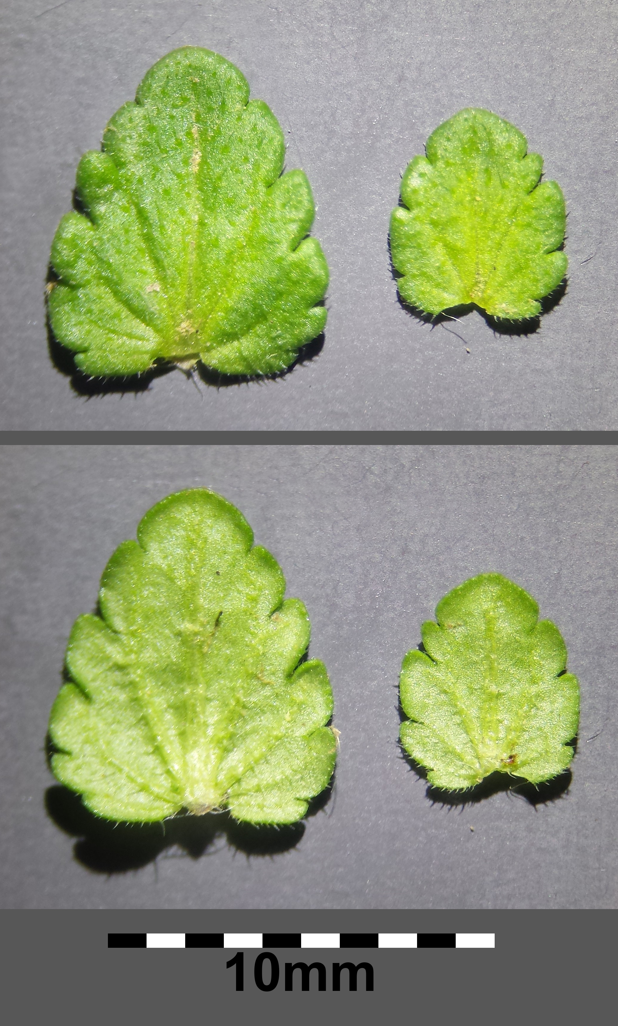 Leaves (top and bottom side) Taxonym: Veronica arvensis ss Fischer et al. EfÖLS 2008 ISBN 978-3-85474-187-9 Location: near Niederhollabrunn, district Korneuburg, Lower Austria - ca. 350 m a.s.l. Habitat: wineyard